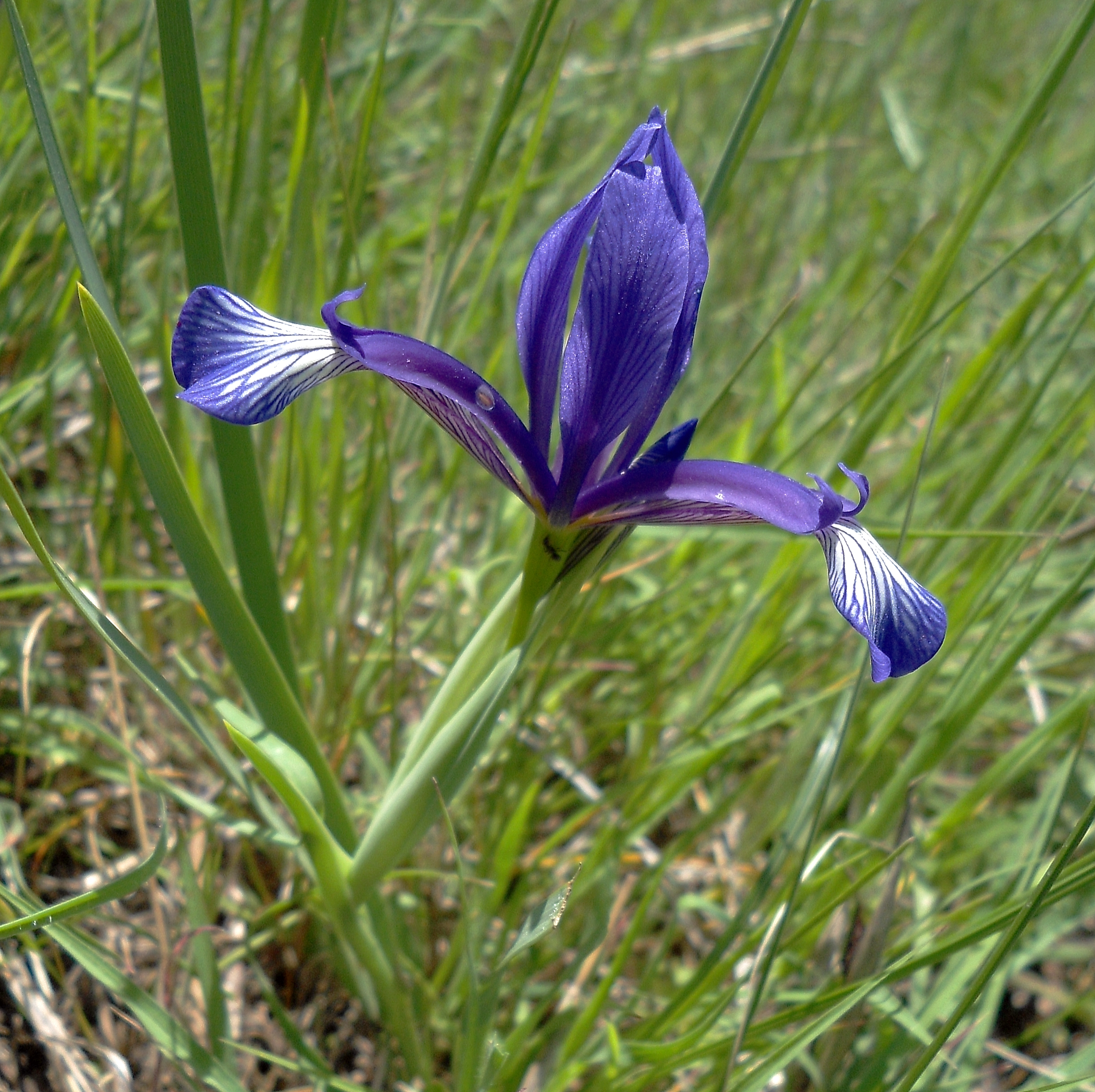 Iris sintenisii, the valley of River Pòpovska (tributary of Tundzha), Southeastern Bulgaria. Peculiar detail of the image confirms that ants do indeed participate in pollination of the flowers. Other of my images from that location contain flowers with multiple insects on them.